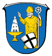 Coat of Arms of Bad Soden-Salmünster